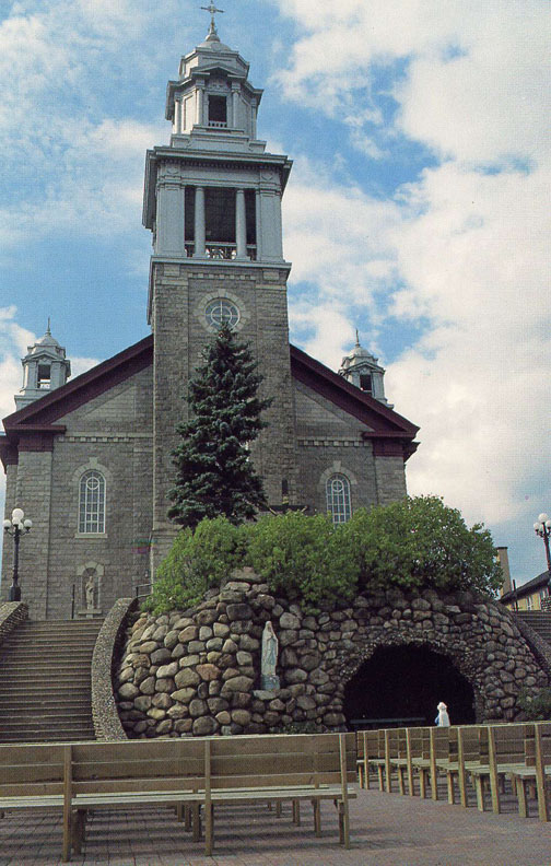 Church of Notre-Dame-de-Lourdes